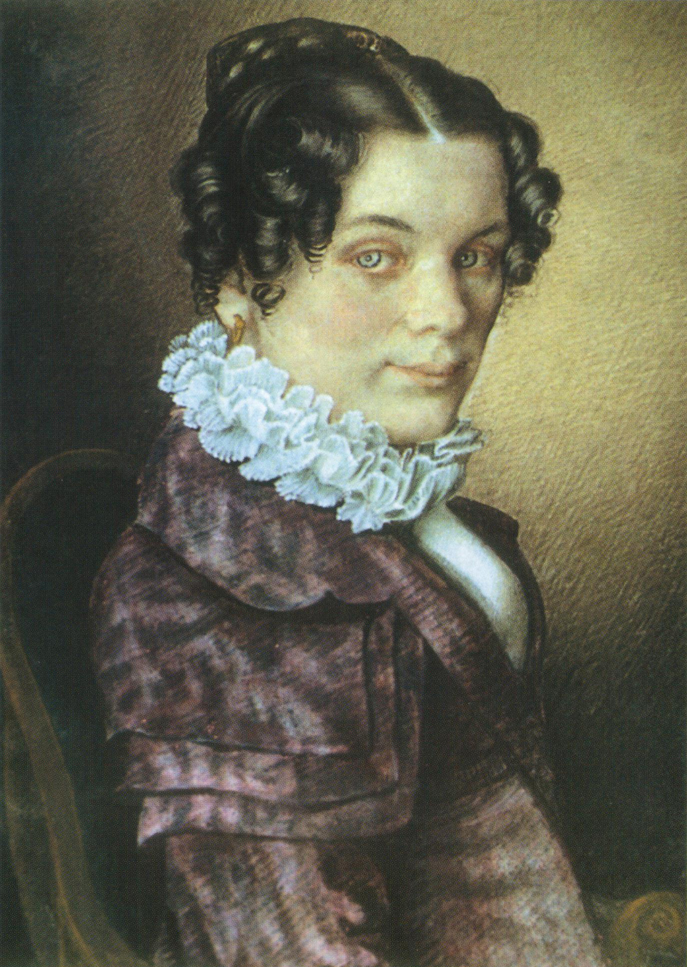 Varvara A. Bakunin (born Muraviov), mother of Mikhail Bakunin.